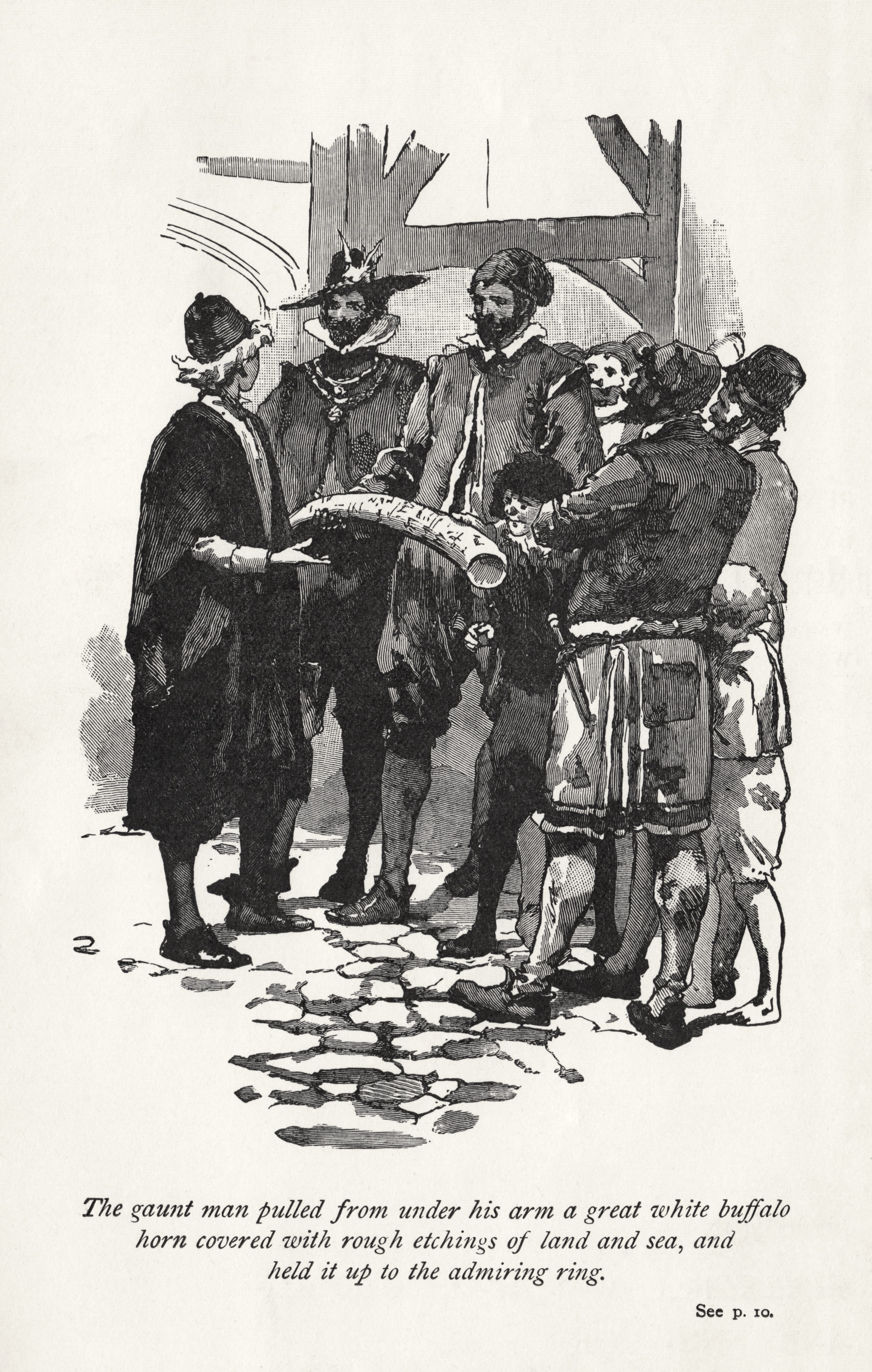 Frontispiece to the 1899 Frederick Warne & Co edition of Westward Ho! by Charles Kingsley.